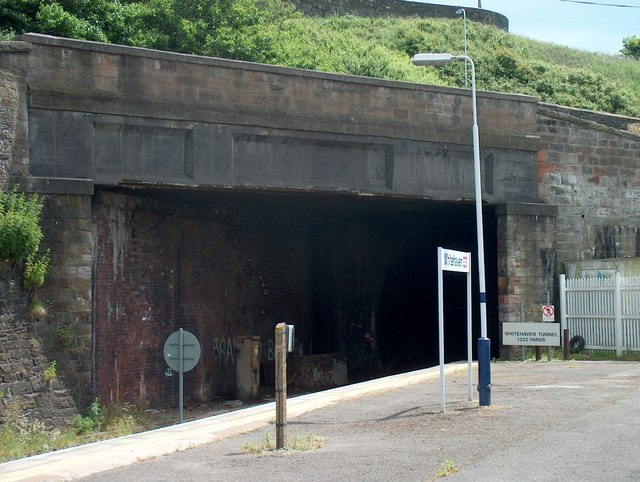 Bransty-Corkickle railway tunnel A fine piece of engineering - a tunnel about one kilometre long running under the town. As a matter of further interest: running over the top of the tunnel [behind the parapet in the picture] is the line followed by one of the earliest railways ever built - the "waggon way" carrying iron-clad wooden rails which allowed horse-drawn transport of coal from William Pit to the harbour.